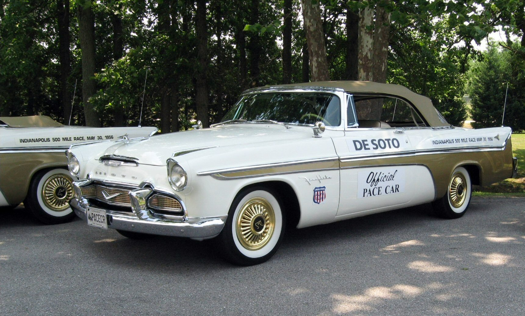 1956 DeSoto Fireflite Convertible Pace Car Top Up.